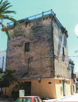 Old Tower in San Pietro Vernotico, Italy